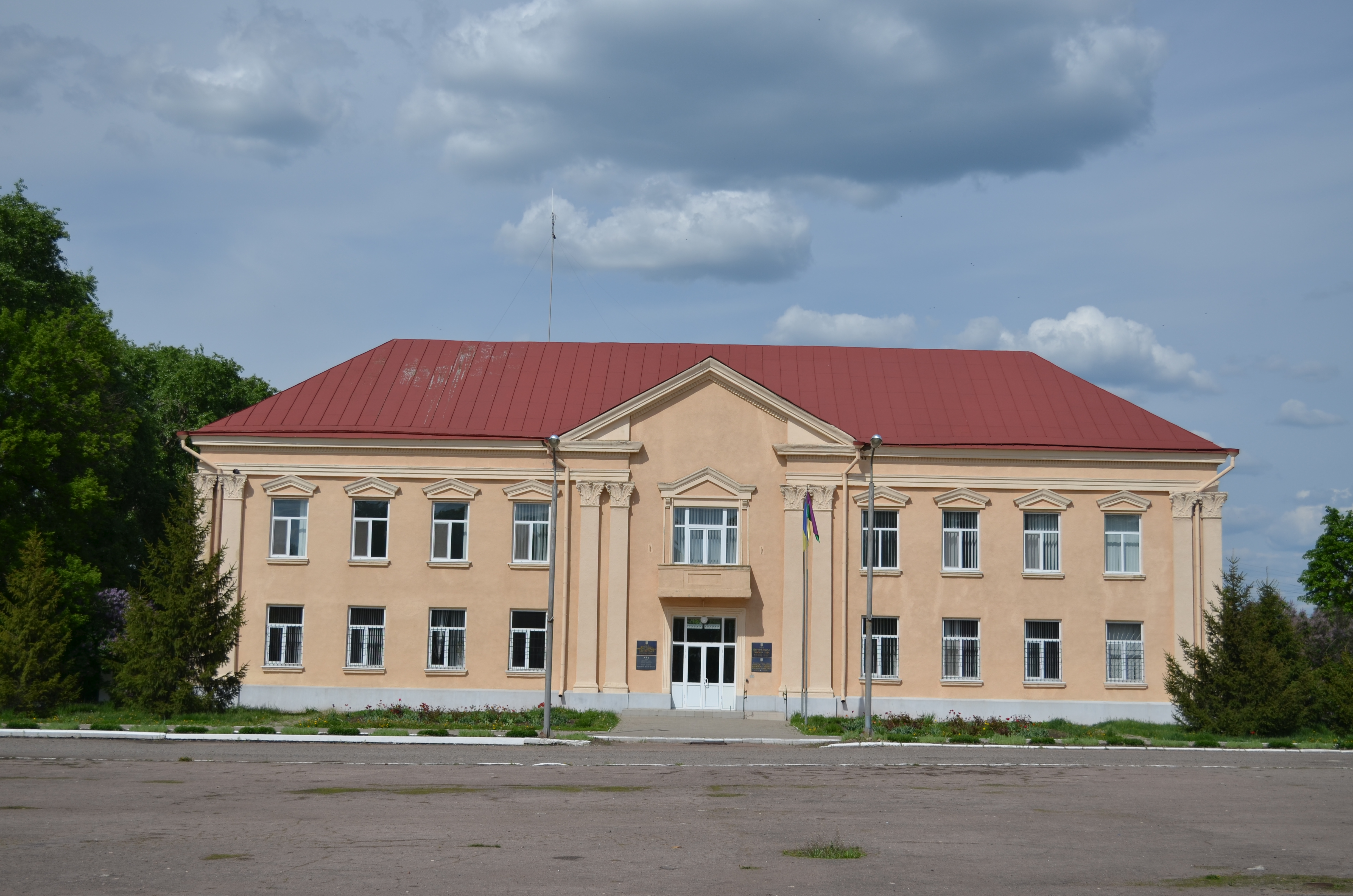 Shevchenkove Raion Administration, Kharkiv Oblast